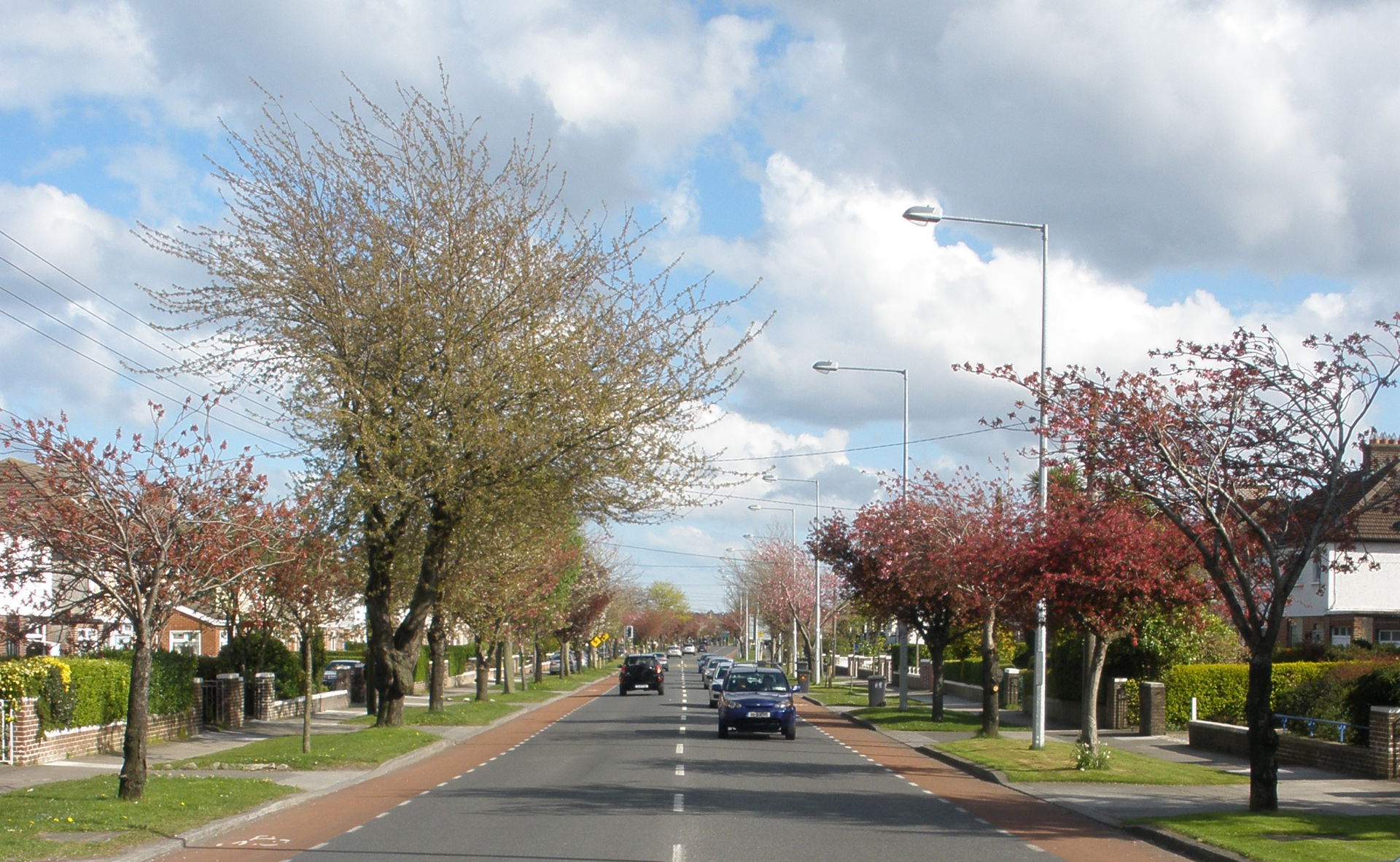 R112 regional road (Templeville Road) with cycle lanes (red) in Templeogue, Dublin, Ireland. View southeast from Templeville Roundabout at intersection with R817 road.